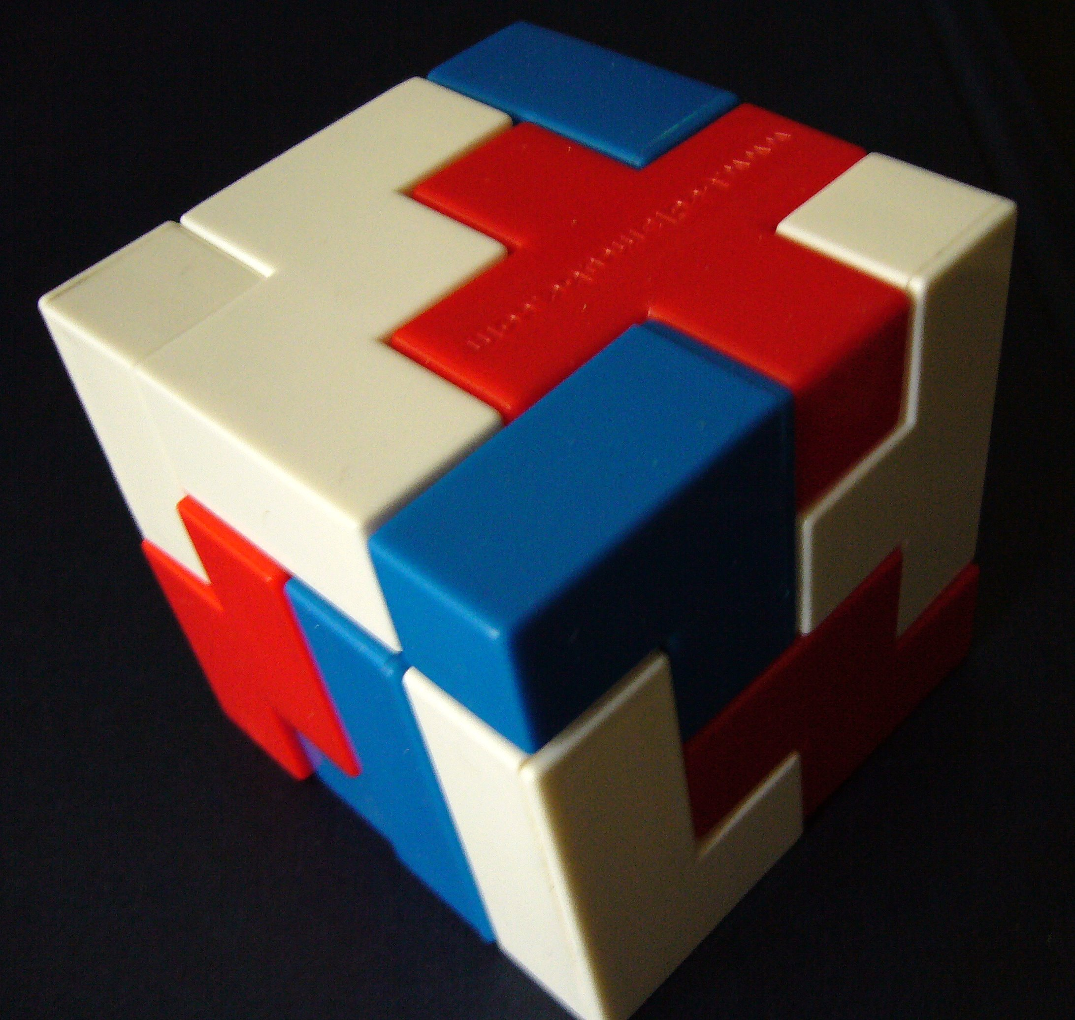 Bedlam cube british edition